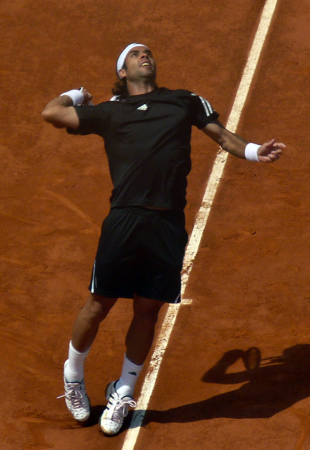 Fernando González against Robin Söderling in the 2009 French Open semifinals